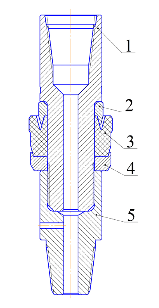 Original figure caption: A wellhead packer of a UHF type: [...] constructive design of the packer (1 – the packer mandrel, 2 – a thrust bush, 3 – a self-sealing ring, 4 – a seat and 5 – an adapter). In that part of article text which addresses that figure (p. 56) it says, that “the packer, which is based on a rubber self-sealing ring, is designed to test blowout preventers and wellhead equipment during underground repair work of wells.”